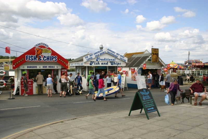 English seaside scene at West Bay, Dorset, England